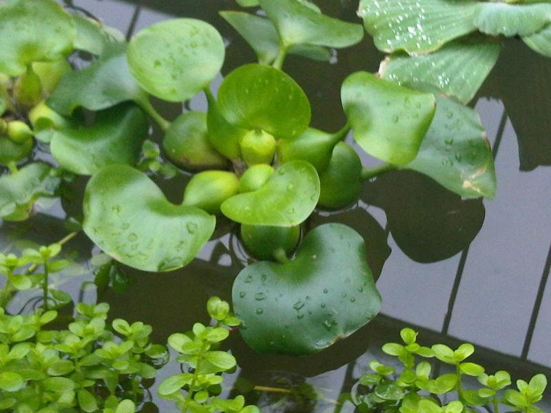 Common Water Hyacinth (Eichhornia crassipes) in Kew Gardens, England.